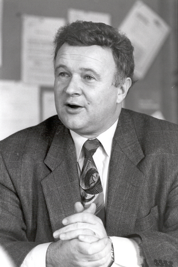 Albrecht Rychen, Swiss politician